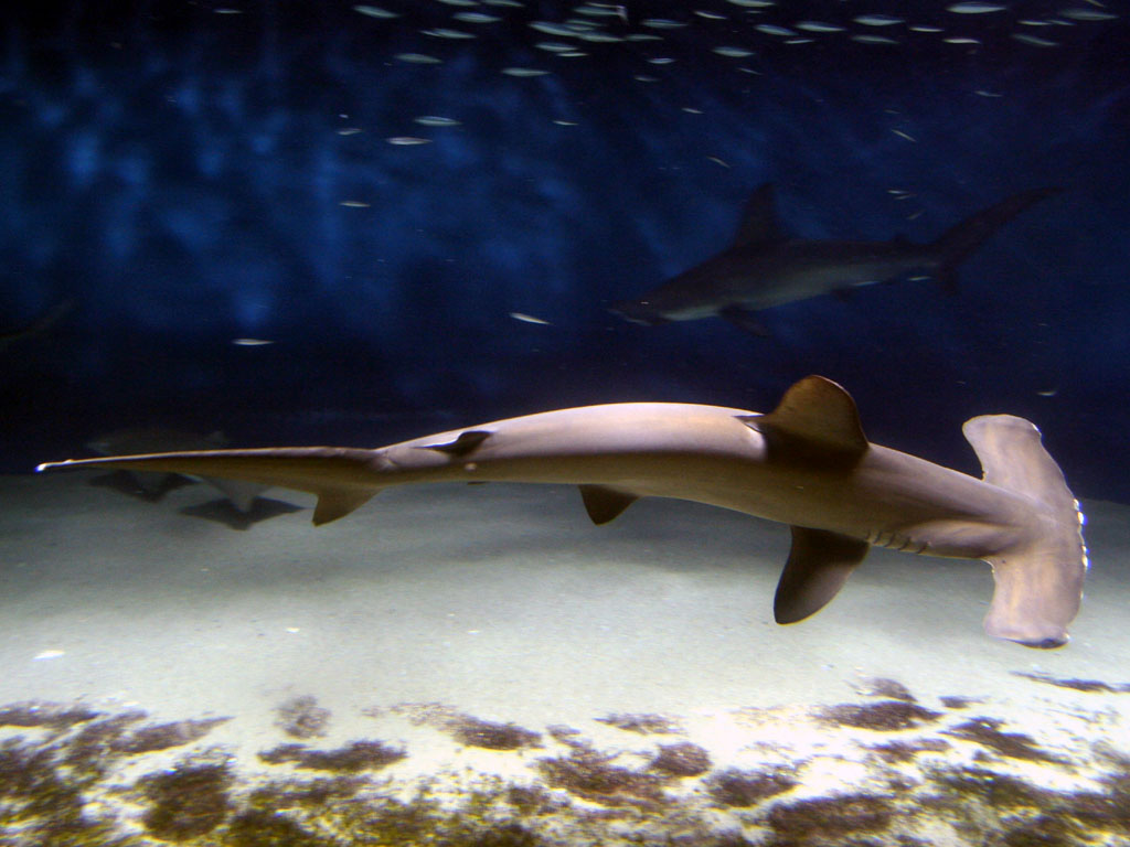 Scalloped Hammerhead Shark (Sphyrna lewini)